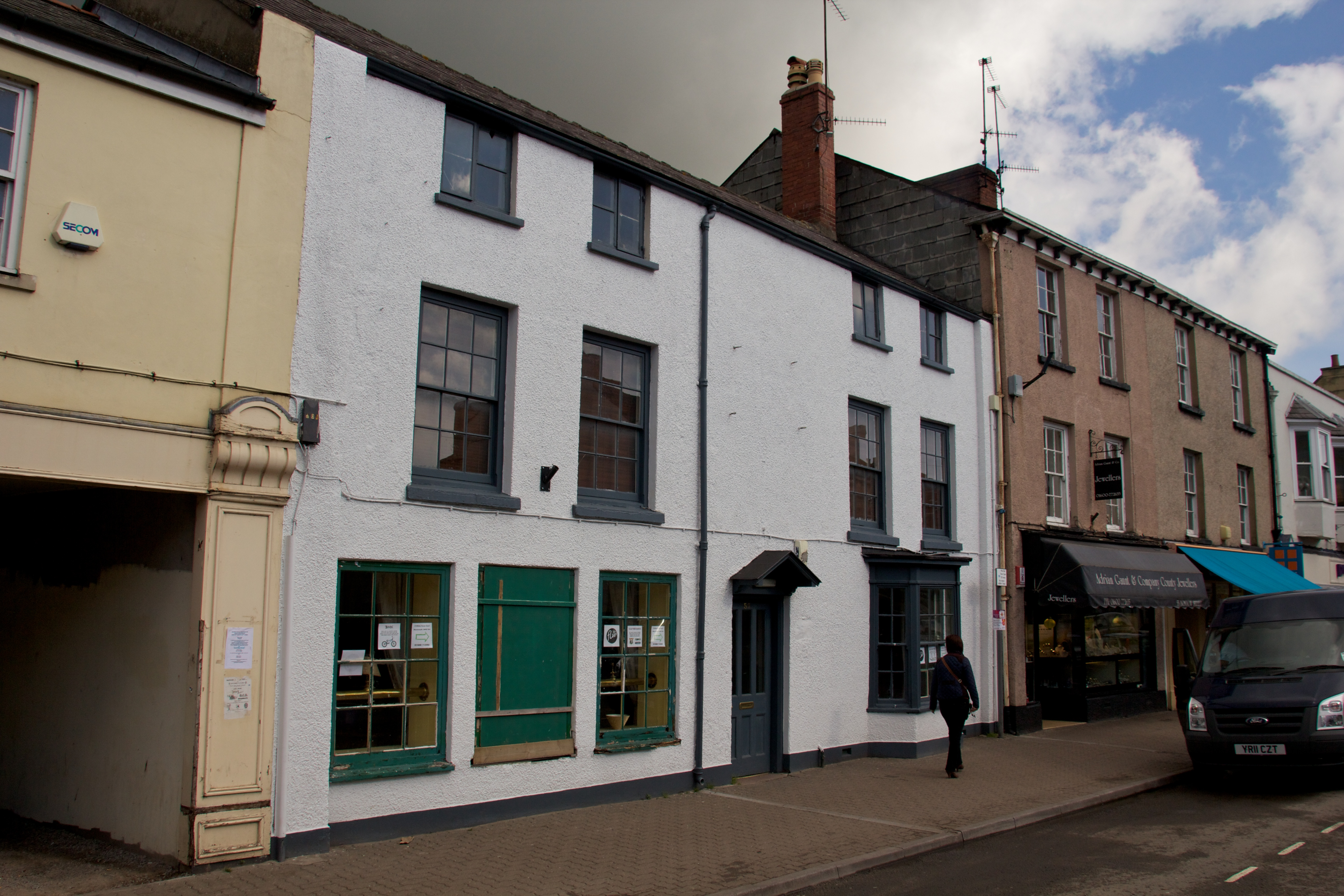 The former Vine Tree pub in Monmouth.